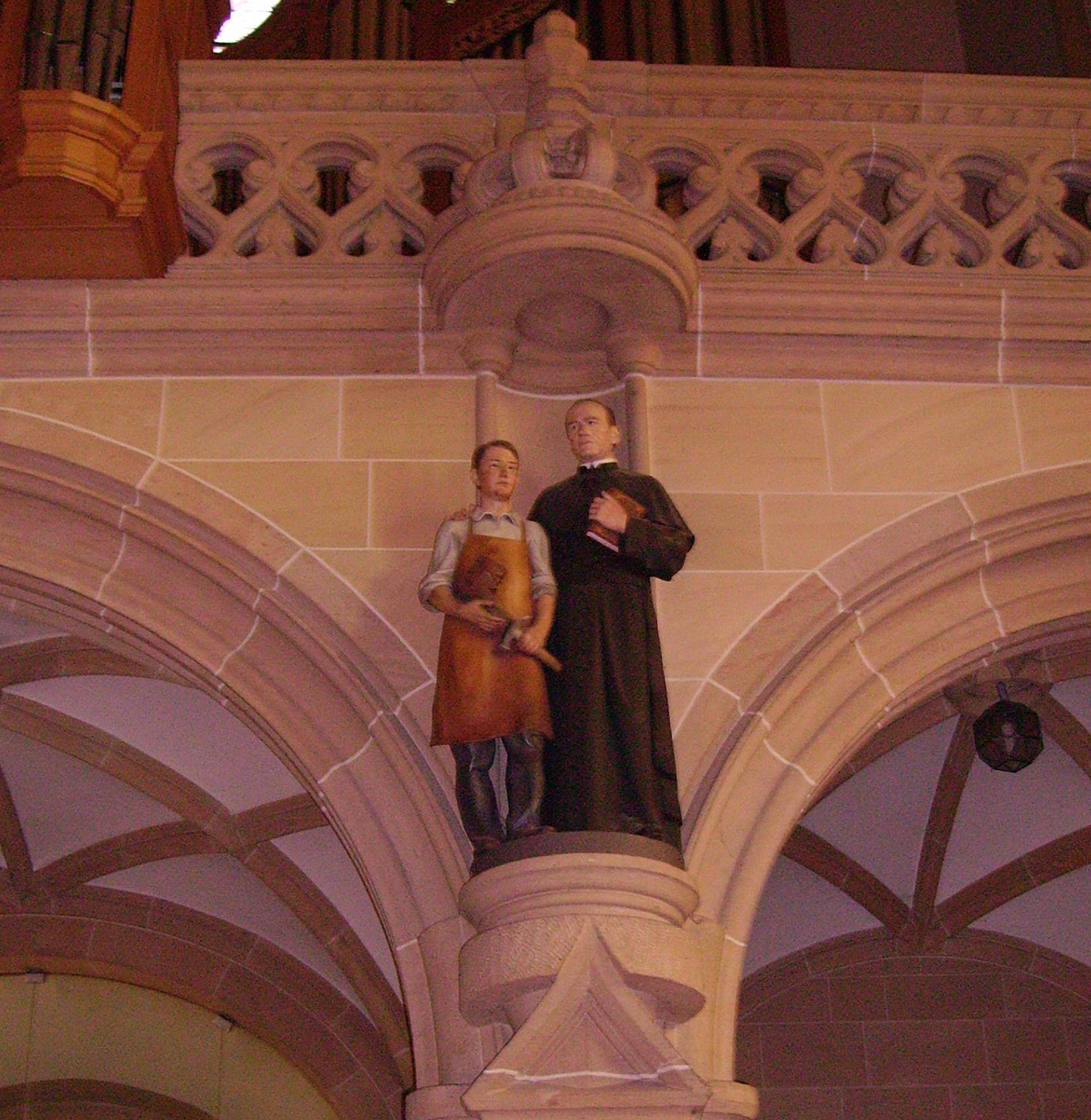 Josephskirche in Speyer, Germany